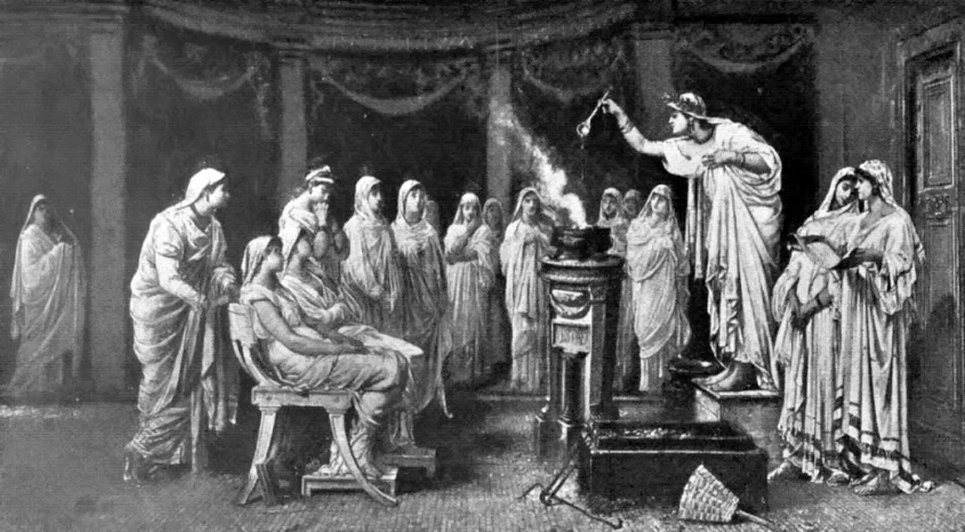 The number is a page number in the book, "Woman Triumphant"; the story of her struggles for freedom, education, and political rights. Dedicated to all noble-minded women by an appreciative member of the other sex by Author: Rudolf Cronau. (1919). The name of the image is the caption name. Follow the link from the image to the full book